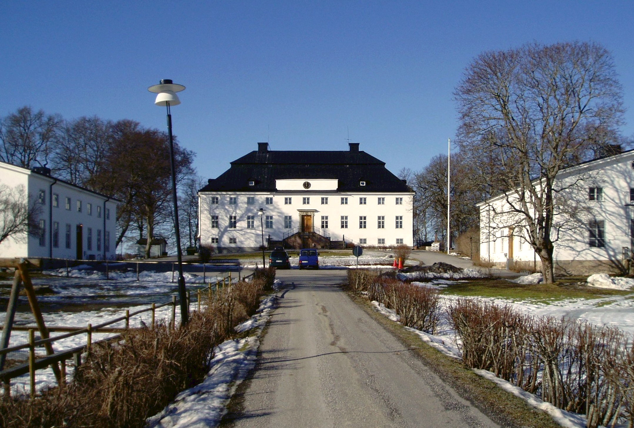 Ekebyholm Castle, Rimbo, Sweden